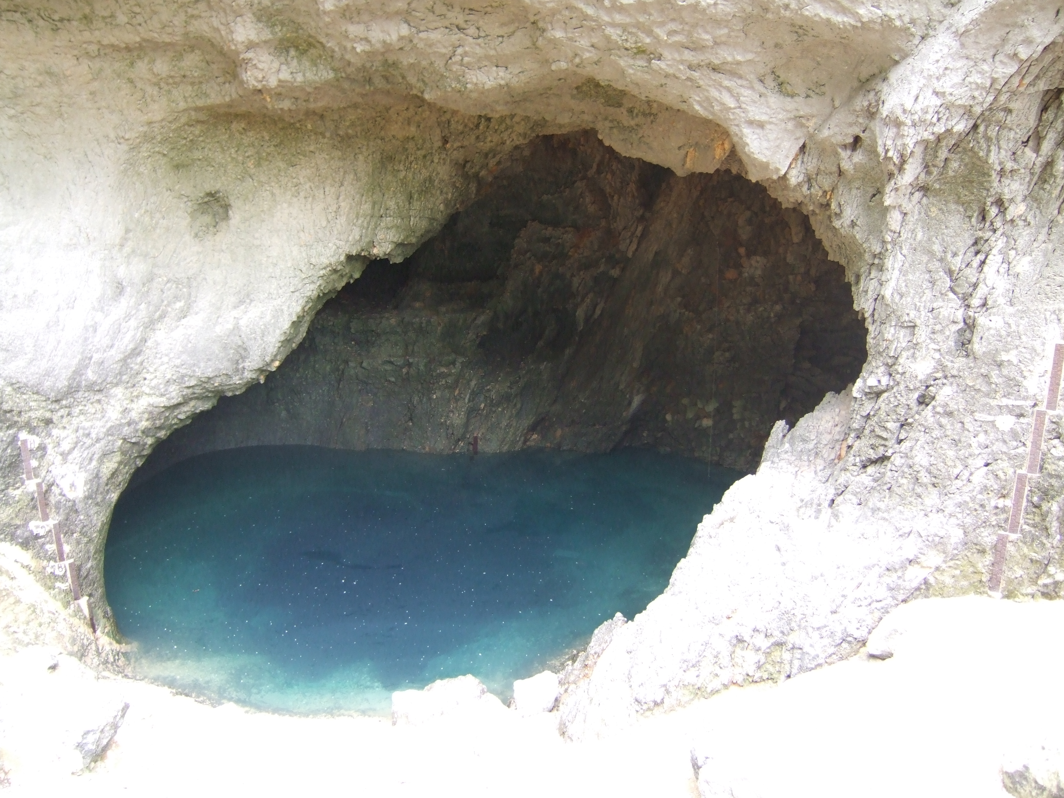 Source of the waters of Fontaine de Vaucluse - Period of minimum flow